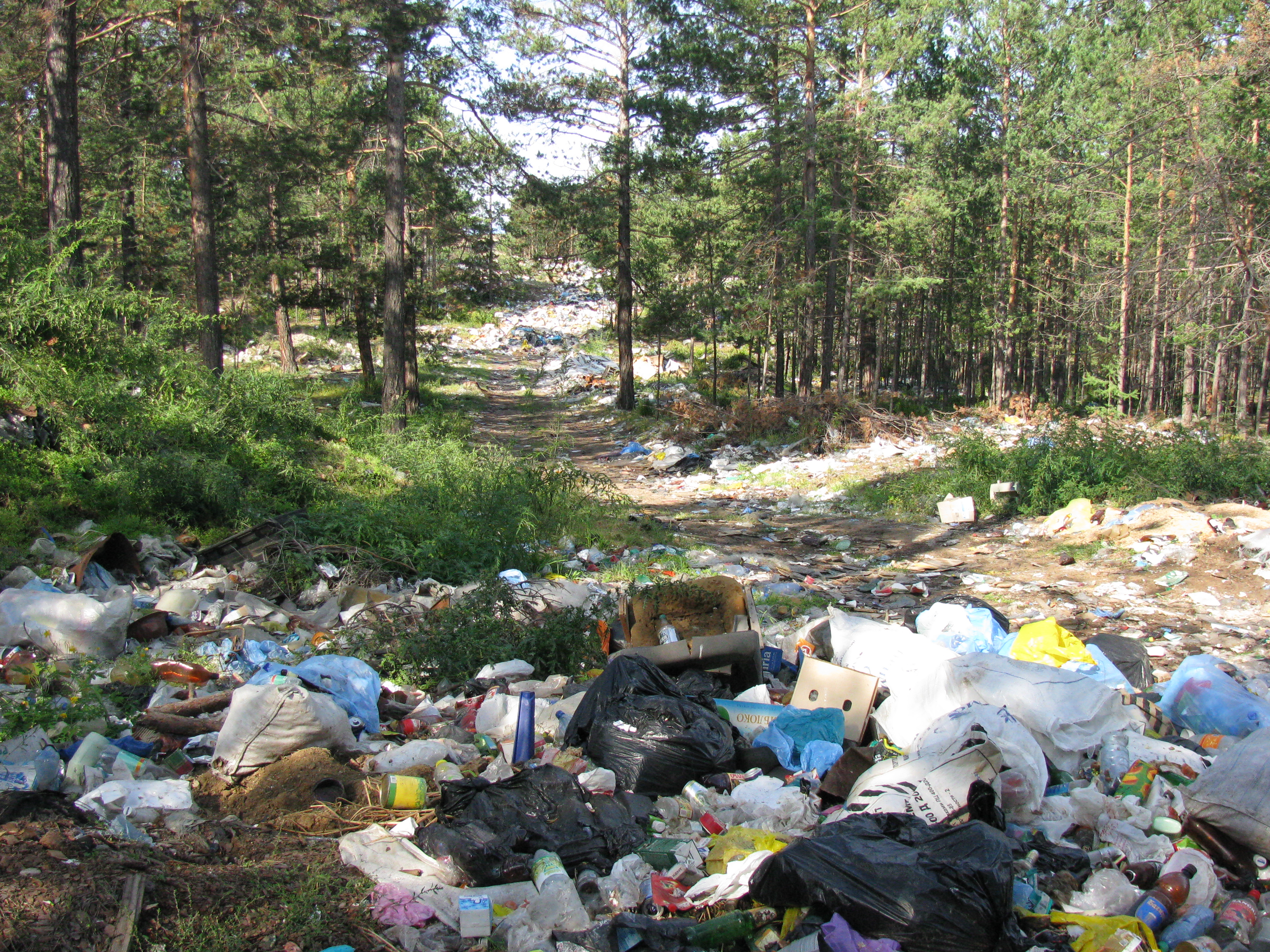 Junkyard near Khuzhir